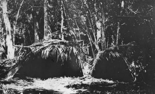 Shelters at Cape Bedford (Hopevale), Queensland, 1920s